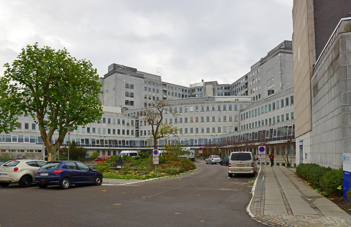 Glostrup Hospital in Glostrup west of Copenhagen, Denmark